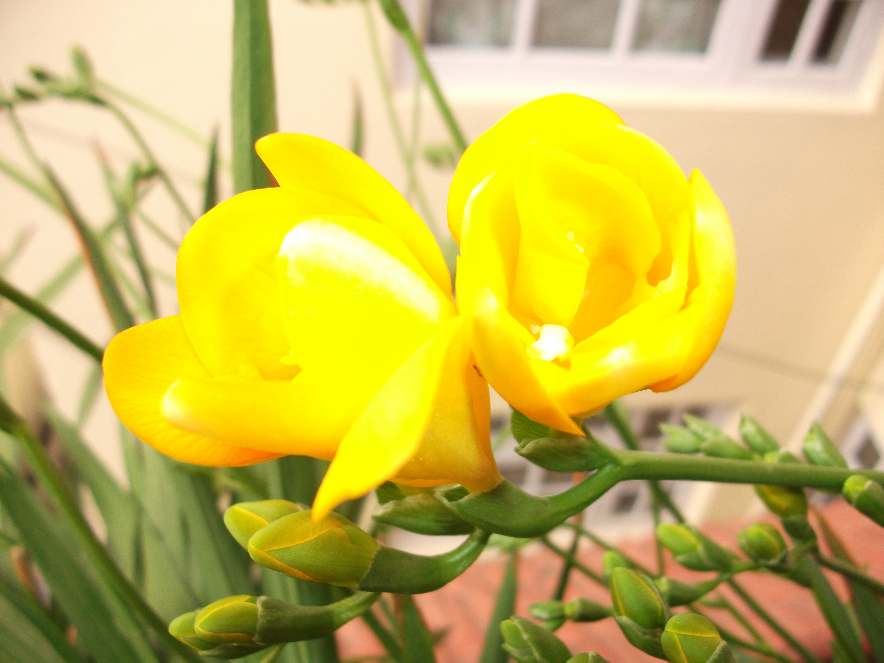 Yellow Freesia with buds and Flowers